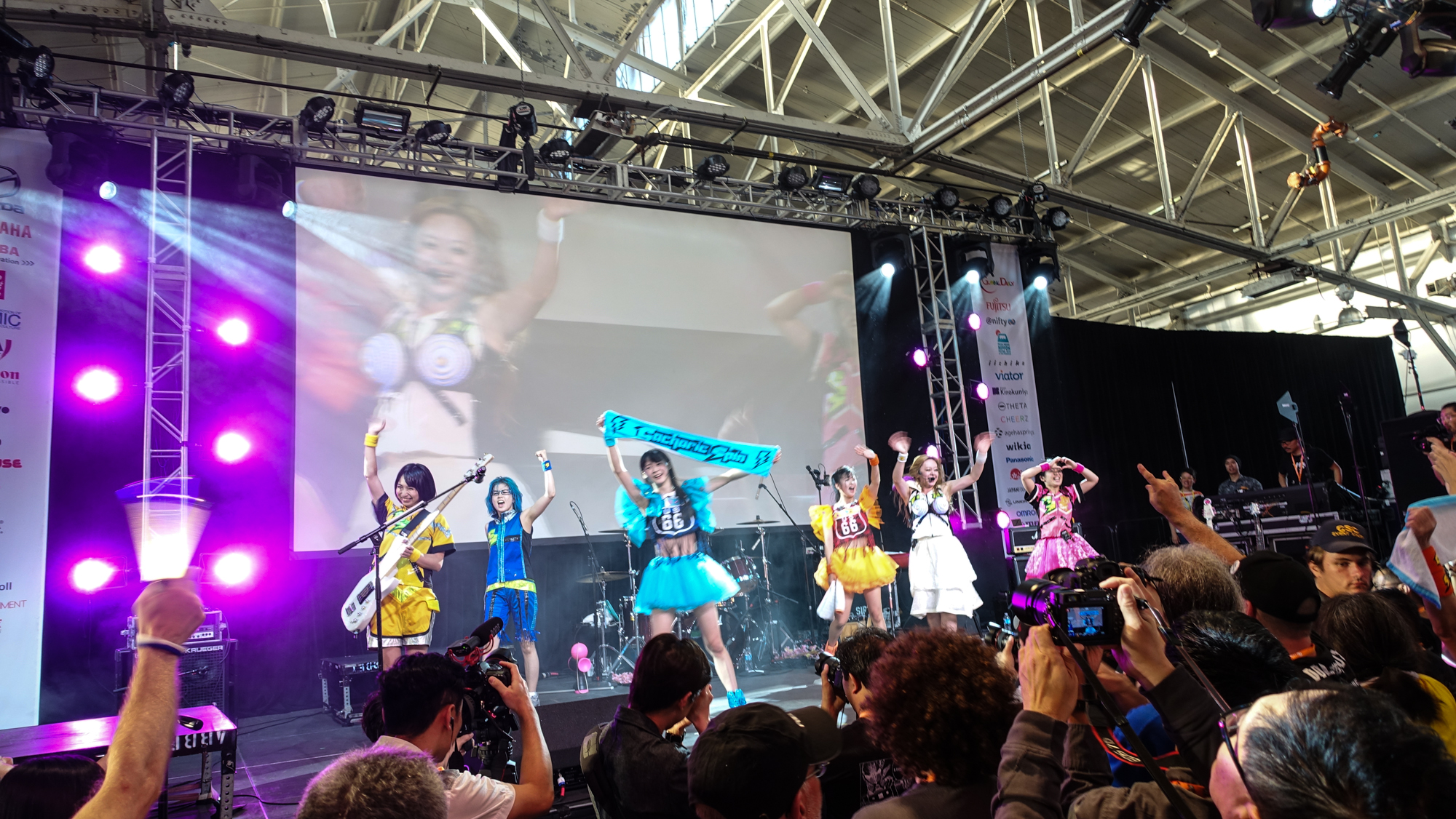 Gacharic Spin at J-pop Summit 2015